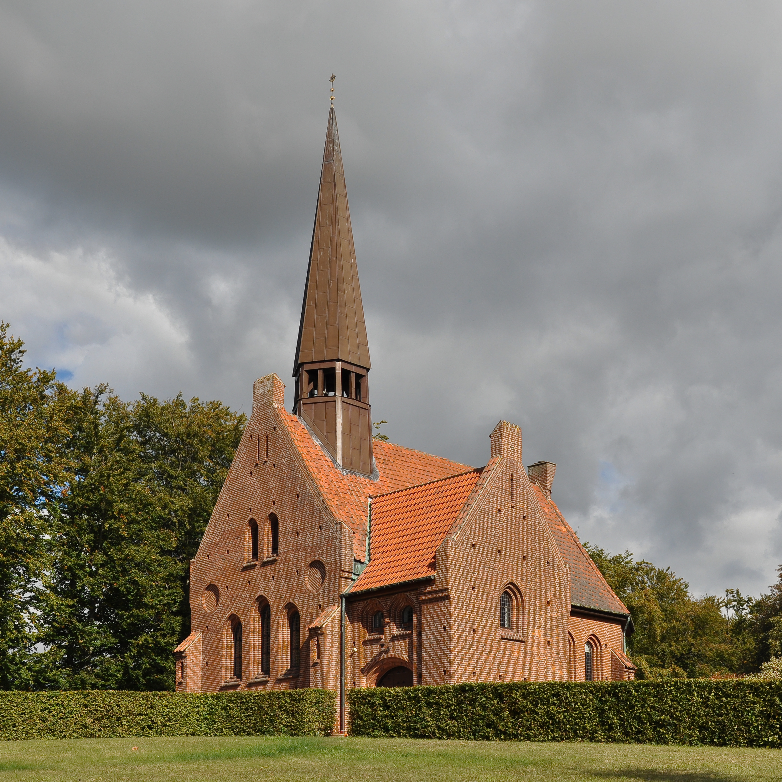 New Vor Frue Church in the village of Vor Frue near Roskilde, Zealand, Denmark.